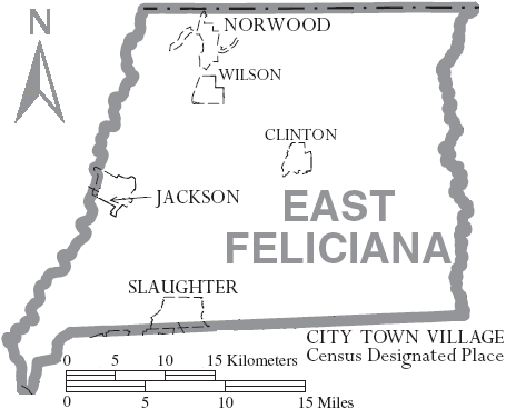 Map of East Feliciana Parish, Louisiana, United States with municipal boundaries